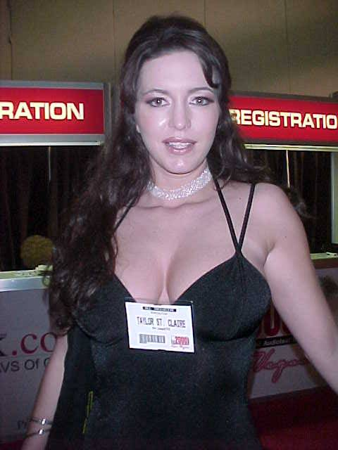 Taylor St. Claire at IA2000 - January 9-12 In Las Vegas